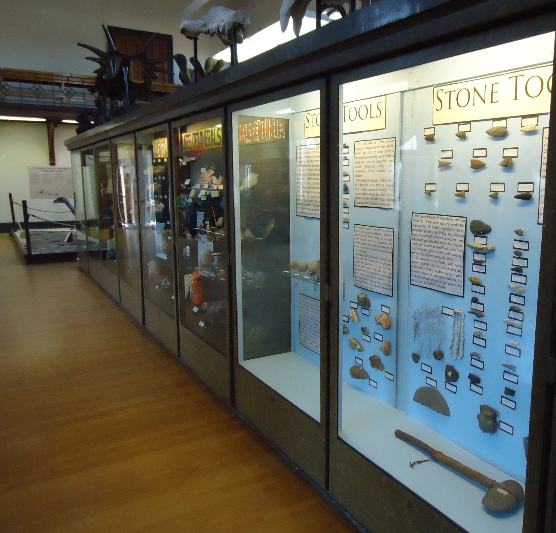 Exhibit in the Geology museum at Rutgers University in New Brunswick, New Jersey. Exhibit of stone tools.